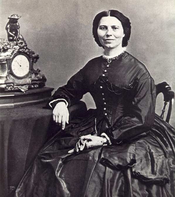 Cropped image, from original. Most famous and widely circulated photograph of Clara Barton. Photographs scanned and edited with the assistance of Volunteer Bruce Douglas. Clara Barton National Historic Site, United States Department of the Interior, National Park Service.